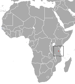 Geata Mouse Shrew (Myosorex geata) range